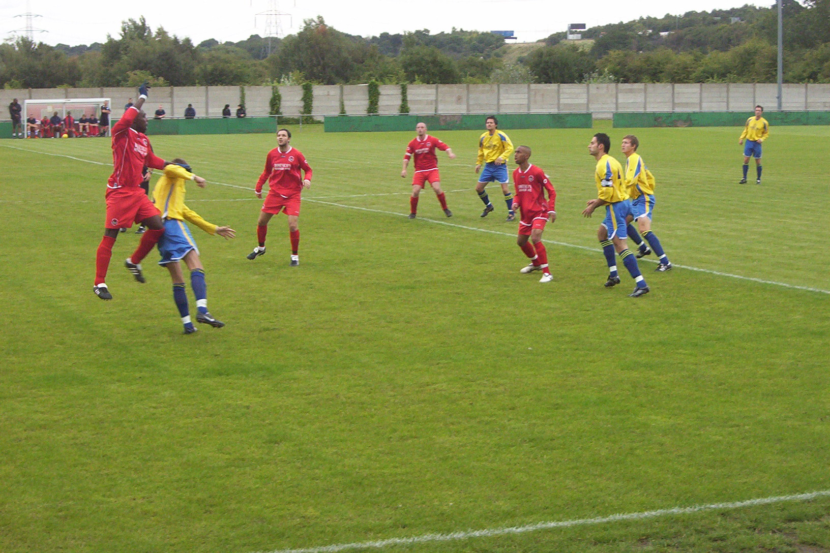 Castle Vale F.C. vs Barrow Town F.C., photographed by myself on 16 August 2008